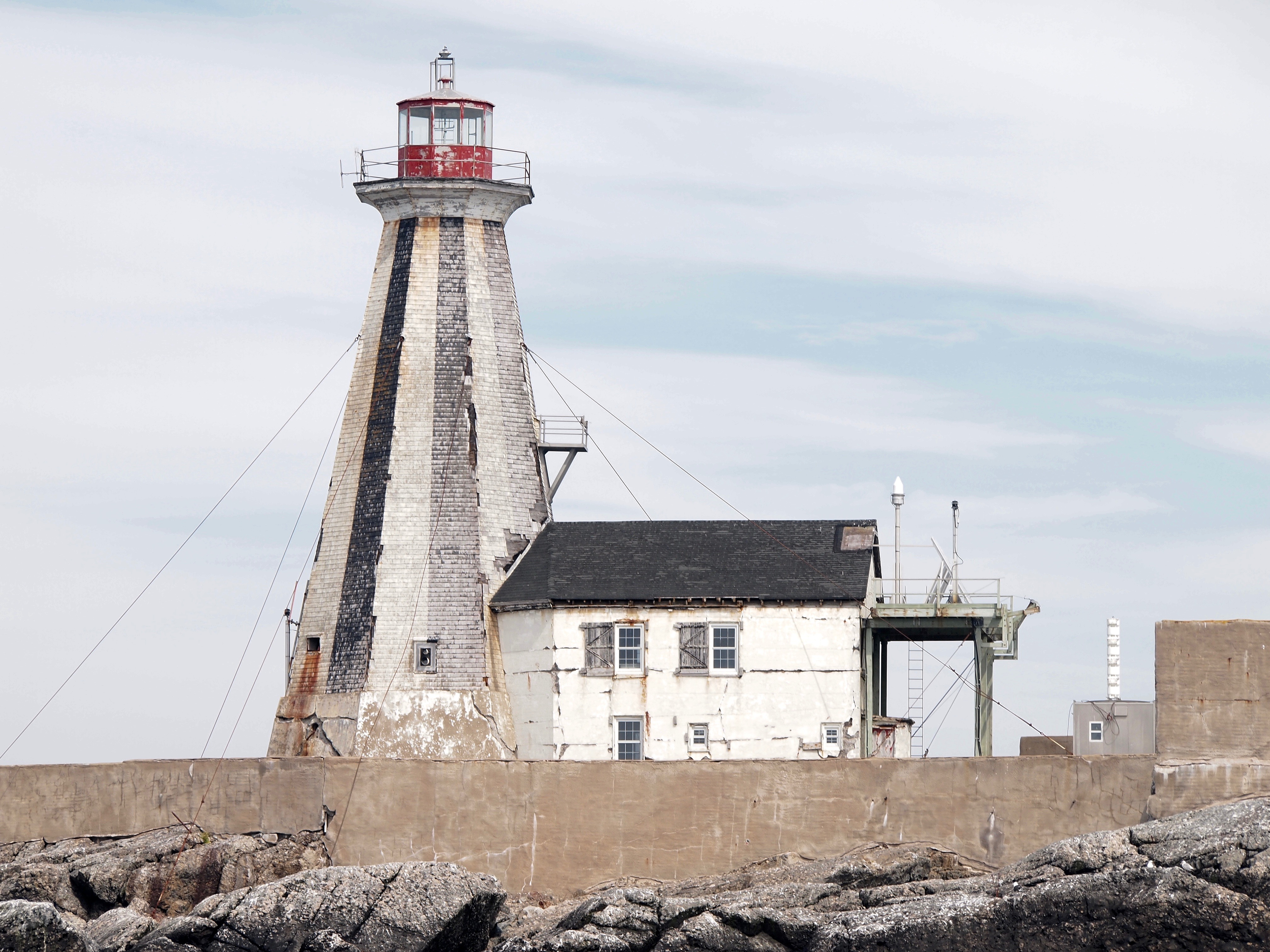 Gannet Rock Light, New Brunswick, taken Sept. 1, 2016 from a lobster boat